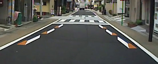 Image bump